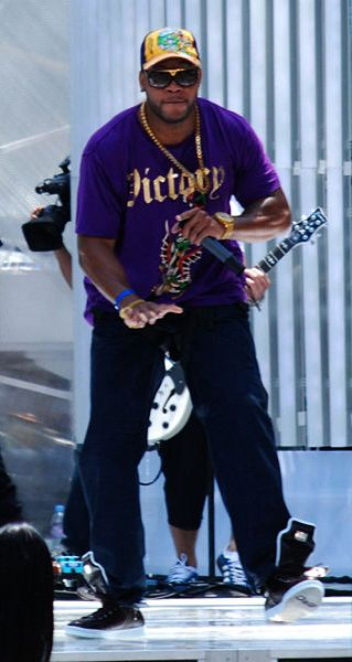 Flo Rida rehearsing for the Much Music Video Awards 2008